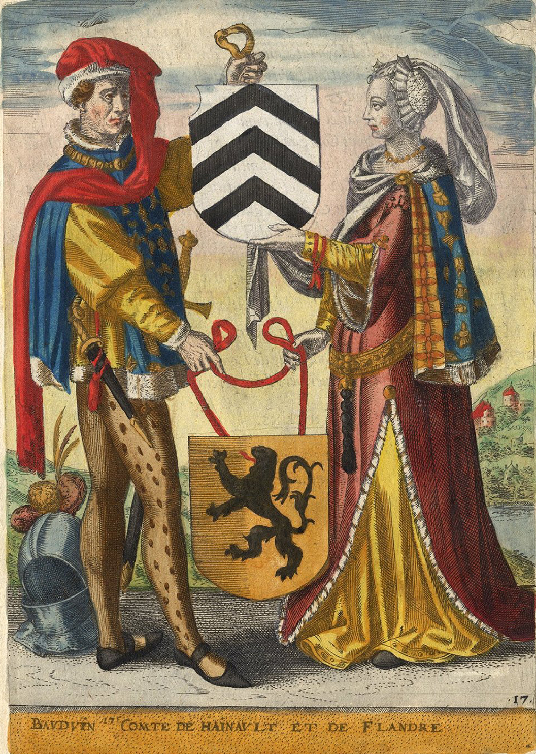 Baldwin VIII and Margaret I of Flanders